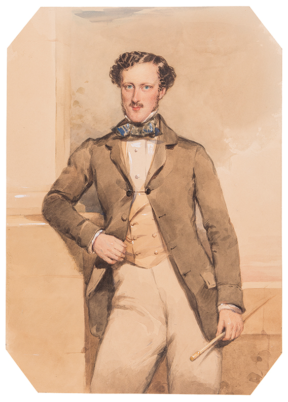 ‘John Edmund Severne / 10th Light Dragoons’. Watercolour and gouache. Signed and dated, 1850. Inscribed on the frame. Severne (1826-1899) lived at Wallop Hall and was MP from Ludlow from 1865-1868. 15.25x11 inches. Framed: 23x18 inches. Offered for sale in 2017 by Abbott & Holder for £2,250.